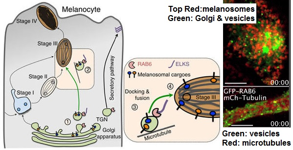 ELKS interacts with RAB6 to direct cargo vesicles along microtubules to melanosomes